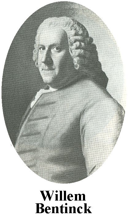 Willem Bentinck, portrait by Liotard around 1750